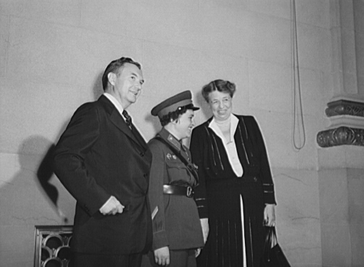 Washington, D.C. International youth assembly. Russian delegate with Mrs. Roosevelt and Justice Robert Jackson is Liudmila Pavlichenko